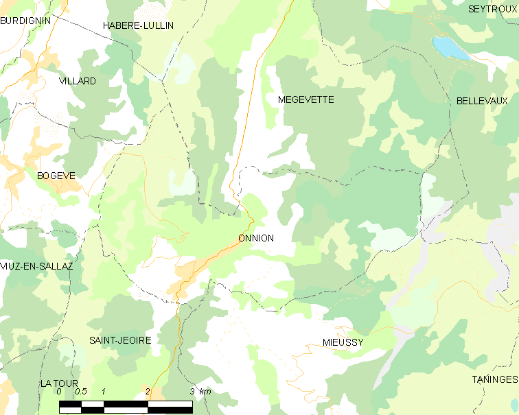 Map of French municipality Onnion